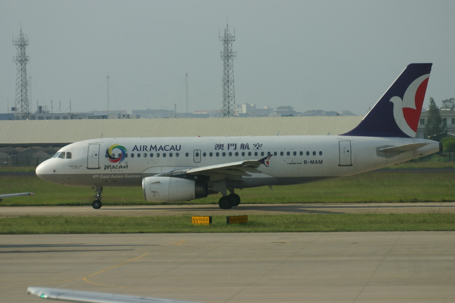 At Xiamen